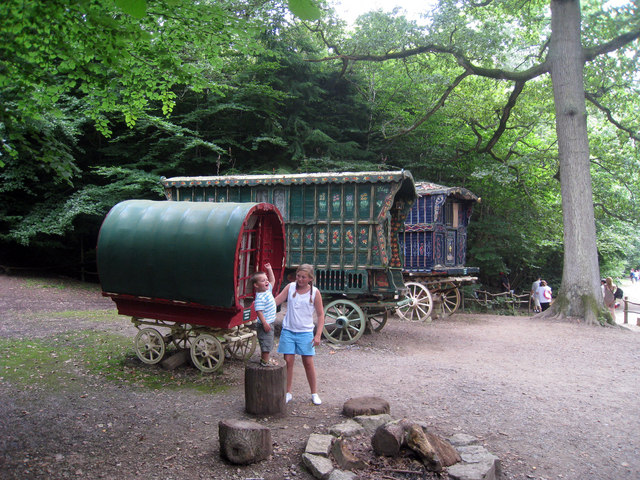 Gypsy Caravans in the Enchanted Forest, Groombridge Place